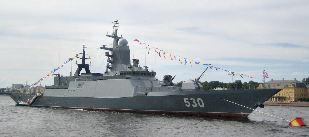 The Steregushchiy (Стерегущий - Guardian) is the lead ship of the latest class of corvettes of the Russian Navy, the Steregushchiy class. The ship was build by the Severnaya Verf shipyard in St.Petersburg and was laid down in December 2001, launched in May 2006 and joined the Russian navy on 17th November 2007. Here the Steregushchiy is shown on Navy day 2009 (26.7.) in the Neva River in St. Petersburg.